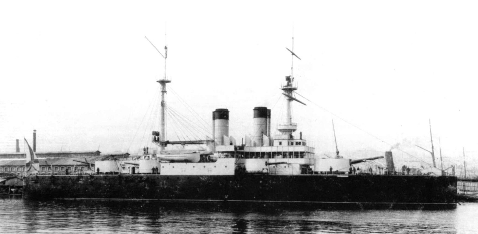 Battleship Rostislav at port, the very beginning of her life, original paint scheme.